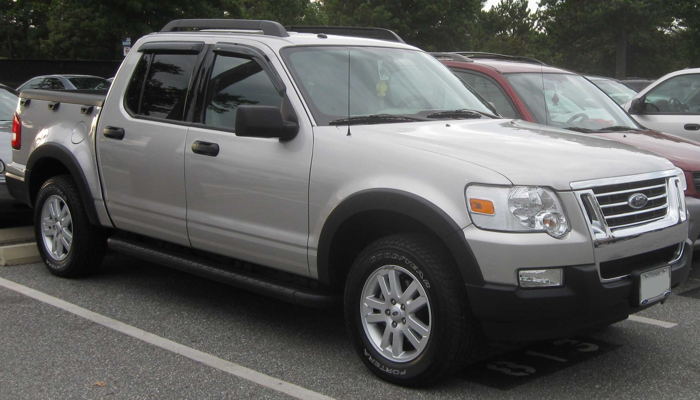 2007-2009 Ford Sport Trac photographed in College Park, Maryland, USA.